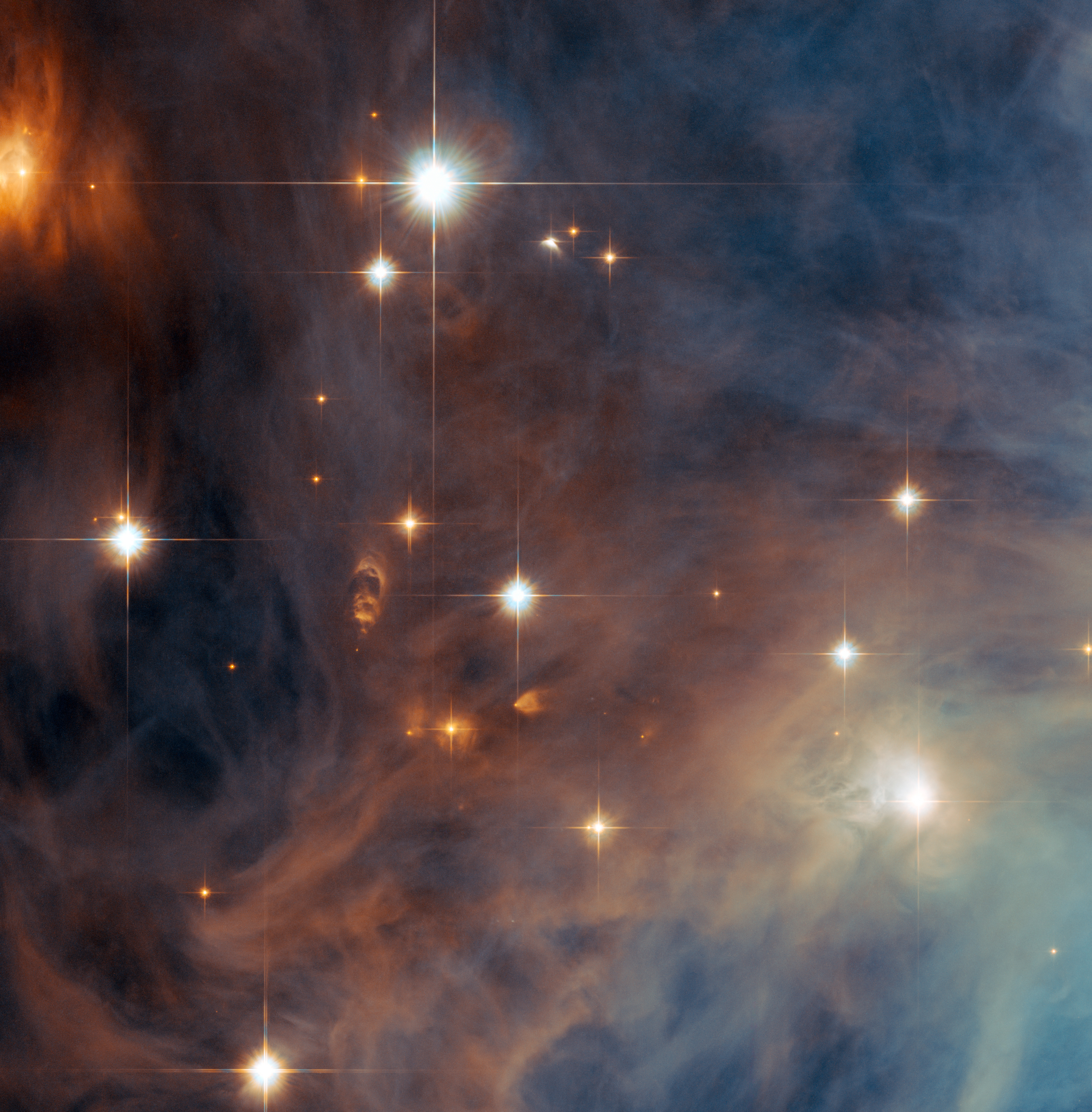 The NASA/ESA Hubble Space Telescope has taken a close-up view of an outer part of the Orion Nebula’s little brother, Messier 43. This nebula, which is sometimes referred to as De Mairan’s Nebula after its discoverer, is separated from the famous Orion Nebula (Messier 42) by only a dark lane of dust. Both nebulae are part of the massive stellar nursery called the Orion molecular cloud complex, which includes several other nebulae, such as the Horsehead Nebula (Barnard 33) and the Flame Nebula (NGC 2024). The Orion molecular cloud complex is about 1400 light-years away, making it one of the closest massive star formation regions to Earth. Hubble has therefore studied this extraordinary region extensively over the past two decades, monitoring how stellar winds sculpt the clouds of gas, studying young stars and their surroundings and discovering many elusive objects, such as brown dwarf stars. This view shows several of the brilliant hot young stars in this less-studied region and it also reveals many of the curious features around even younger stars that are still cocooned by dust. This picture was created from images taken using the Wide Field Channel of Hubble’s Advanced Camera for Surveys. Images through yellow (F555W, coloured blue) and near-infrared (F814W, coloured red) filters were combined. The exposure times were 1000 s per filter and the field of view is about 3.3 arcminutes across.